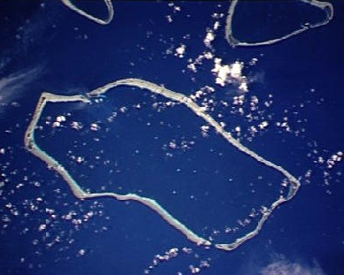 Satawan Atoll (based on the notes on the NASA page the other atolls in view are Etal and Lukunor)